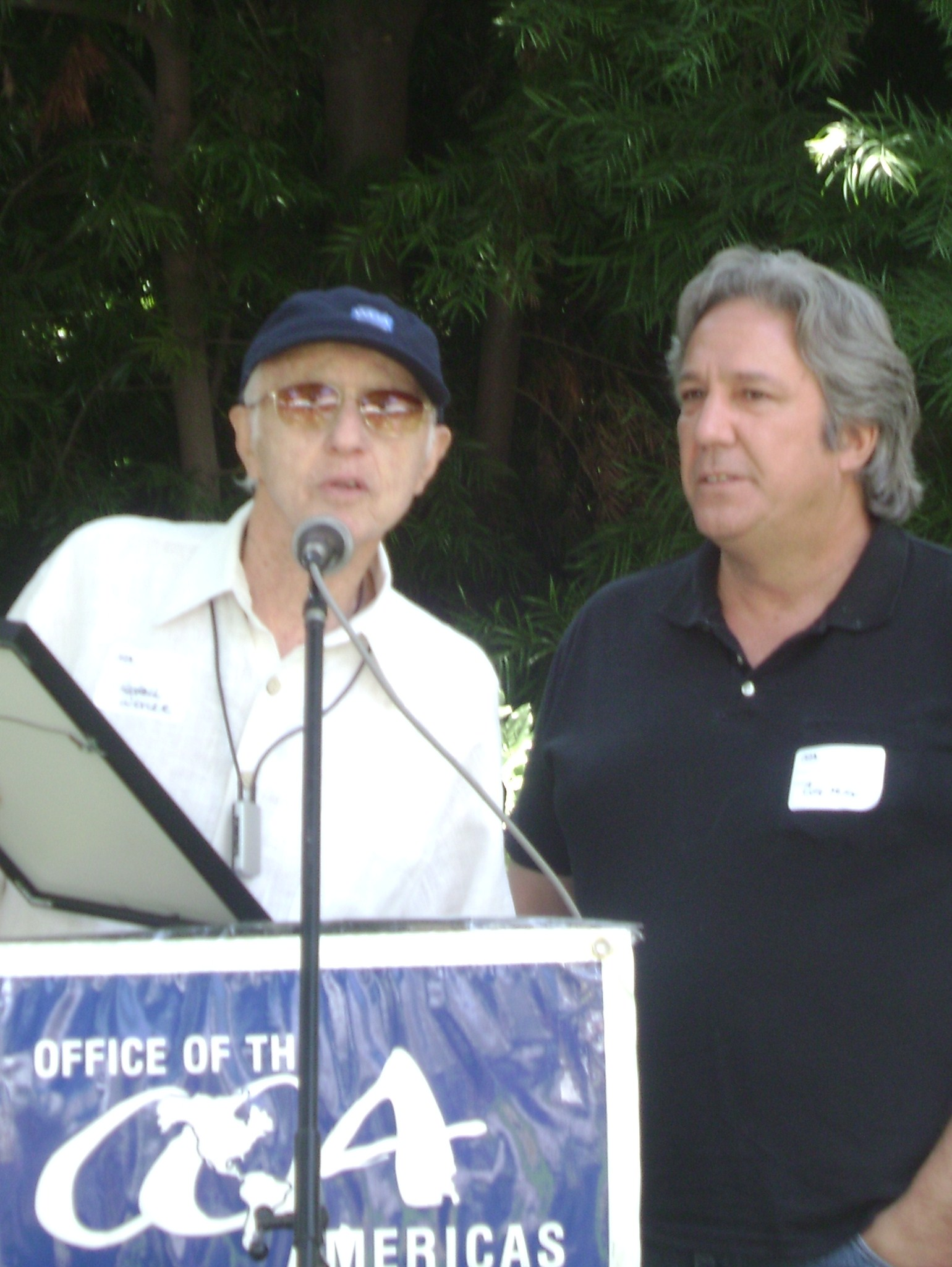 Cole Miller (right) receives award from Haskell Wexler (left) at annual Office of the Americas event